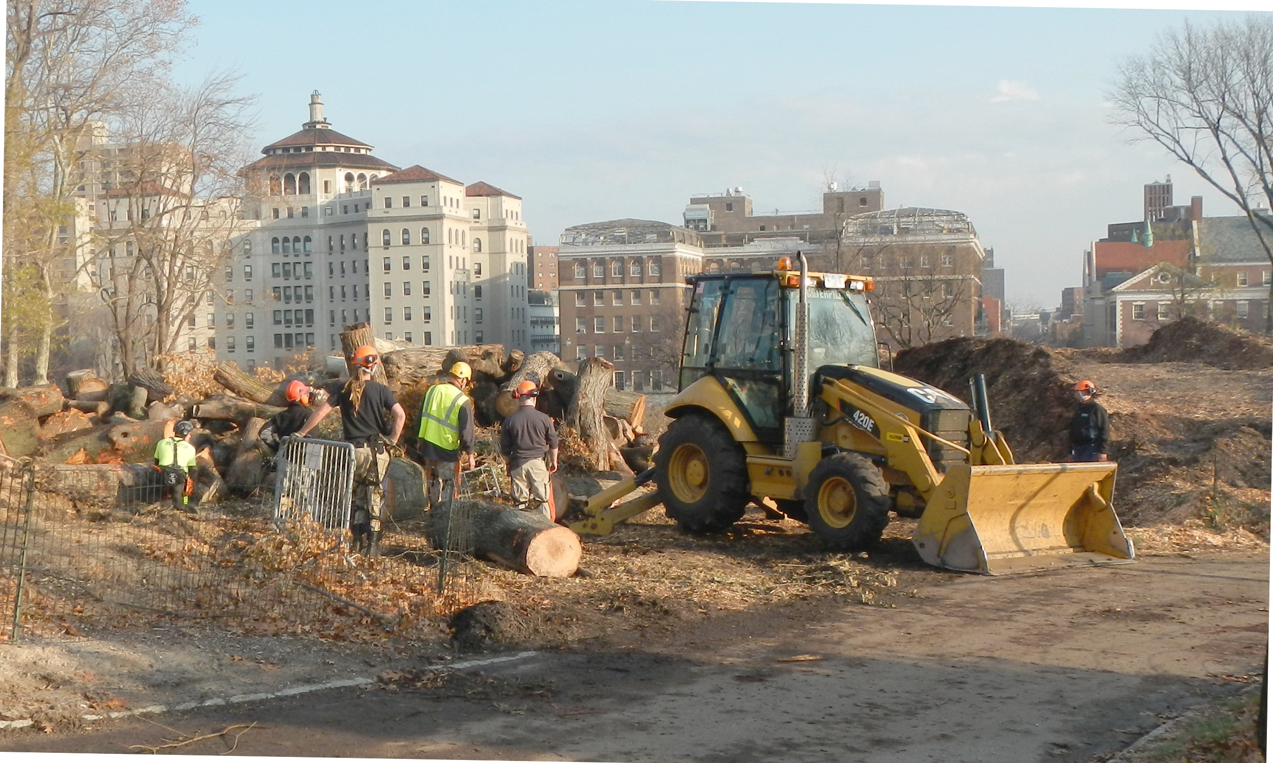 Looking east on a sunny midday at Sandy debris dumped where the convent and later the tavern once stood.